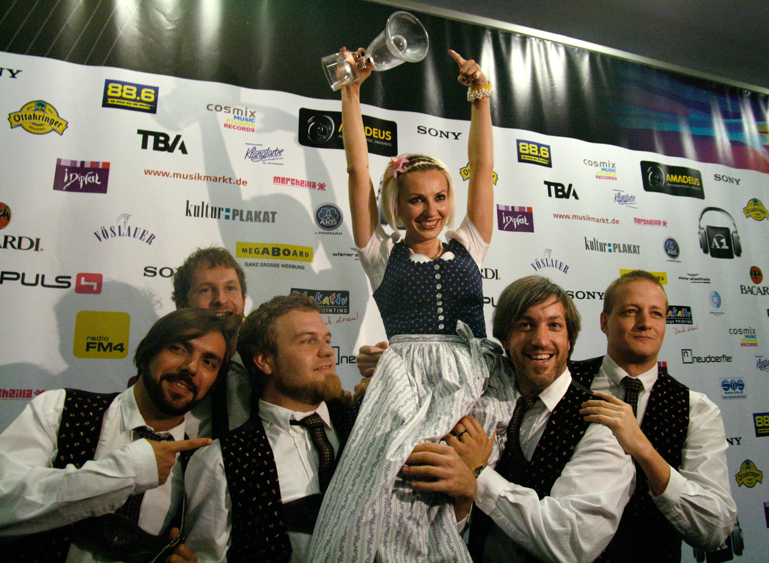 Kontrust at the Amadeus Austrian Music Award 2010 (Wiener Stadthalle, Vienna, Austria)